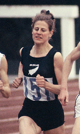 Women 800 m final 1964 Olympics, Marise Chamberlain